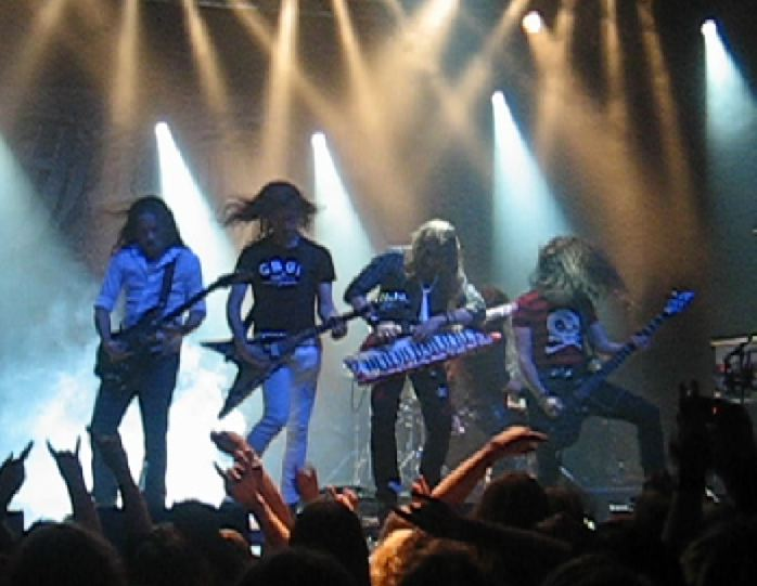 DragonForce Finnish Metal Expossa